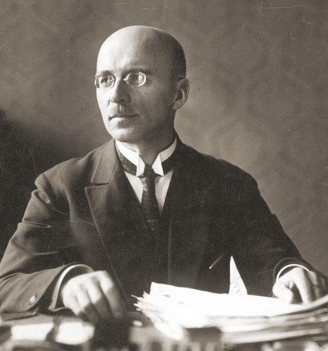 Jan Stanisław Jankowski,Between 1921 and the May coup d'etat of 1926 he was three times the minister of labour and social policies in the government of Poland. During WW II since 1943 Government Delegate for Poland (in underground in occupied by Nazi-Germany Poland) under the formal rank of the deputy Prime Minister of Poland. Arrested by Soviet NKVD 1945, sentenced in a show trial in Moscow to eight years in prison. He died there, probably murdered (shortly before an end of his sentence).